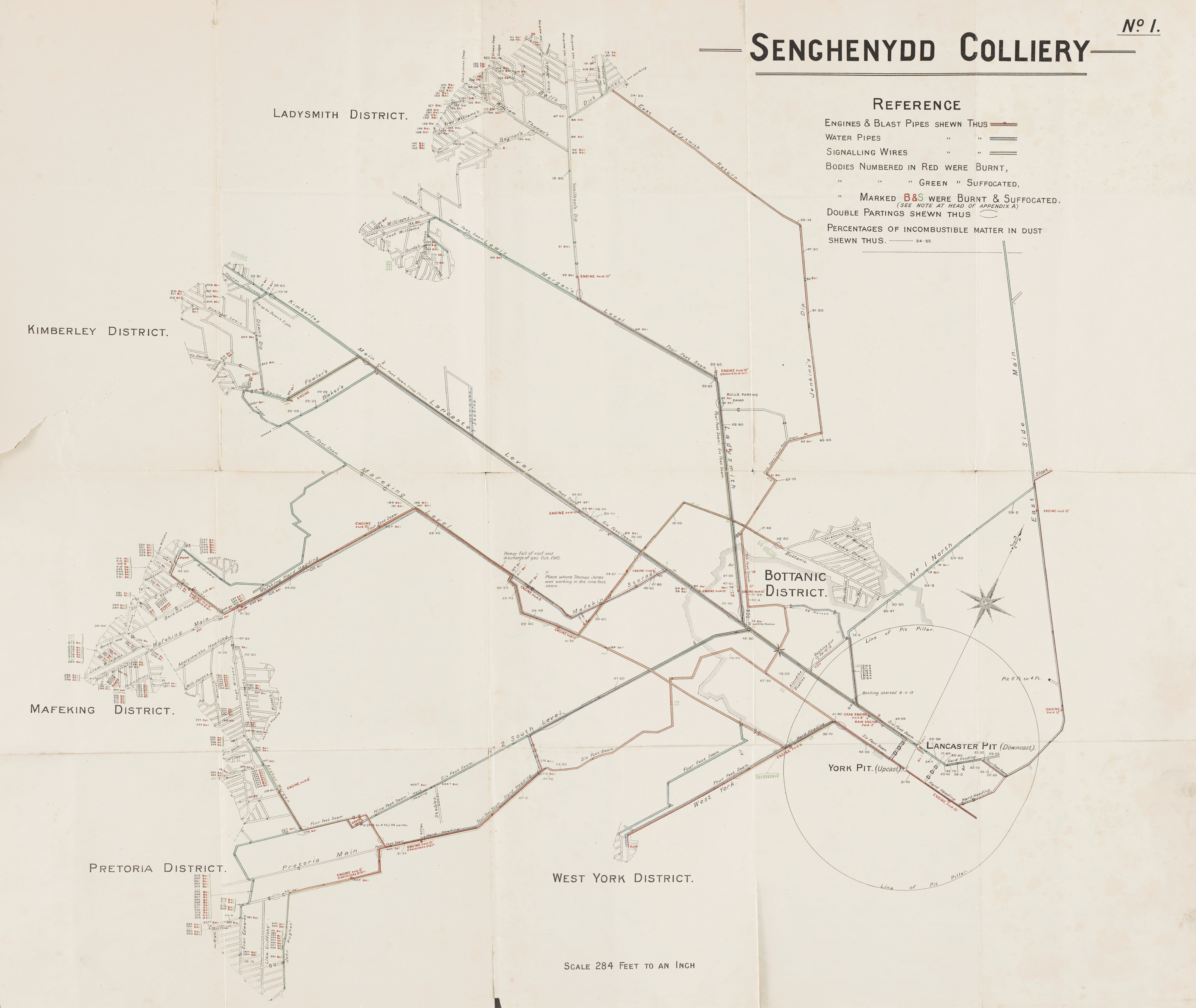 Map addendum to the report into the Senghenydd Colliery Disaster